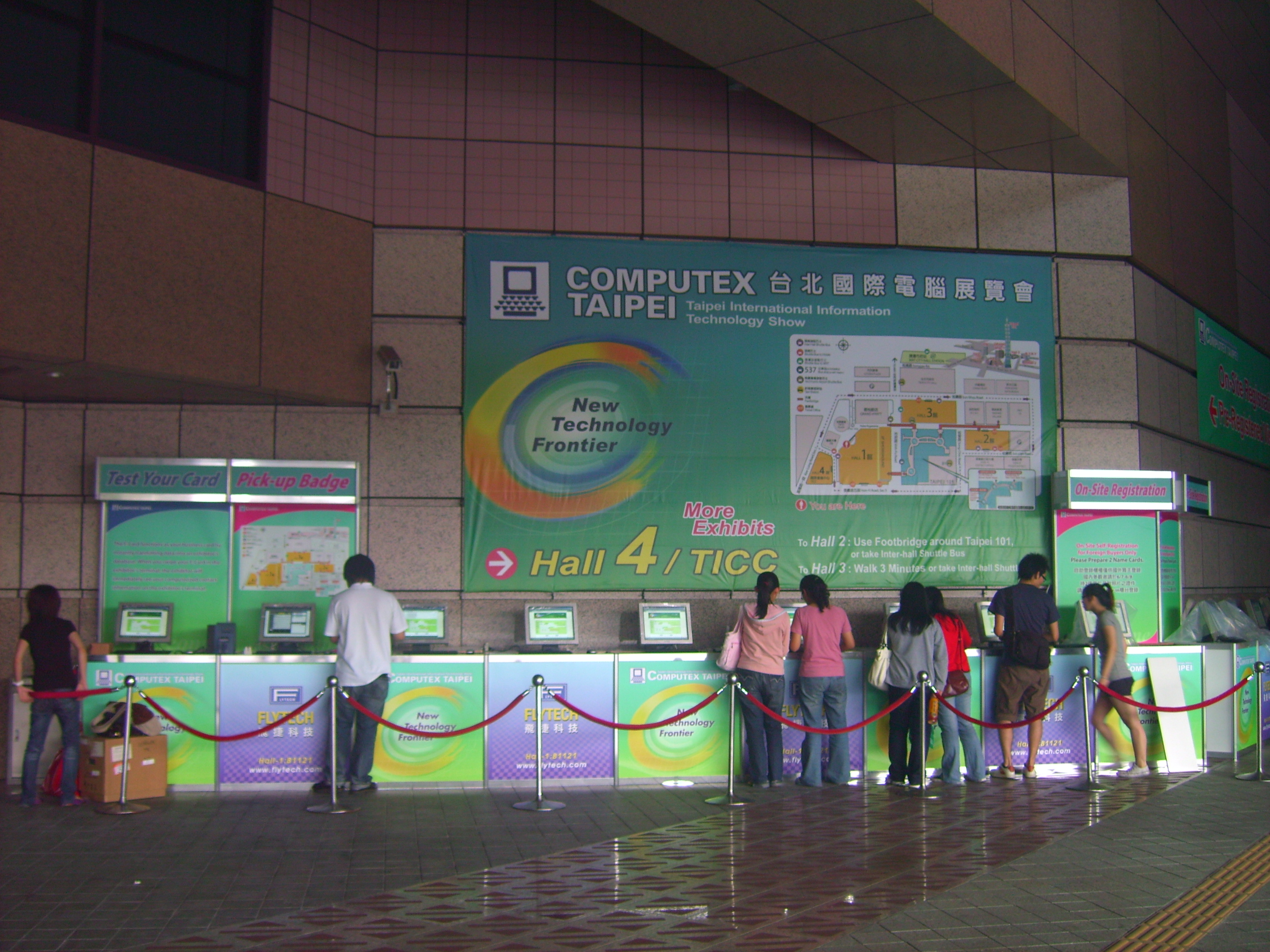 Buyer Registration Area at COMPUTEX Taipei 2007.